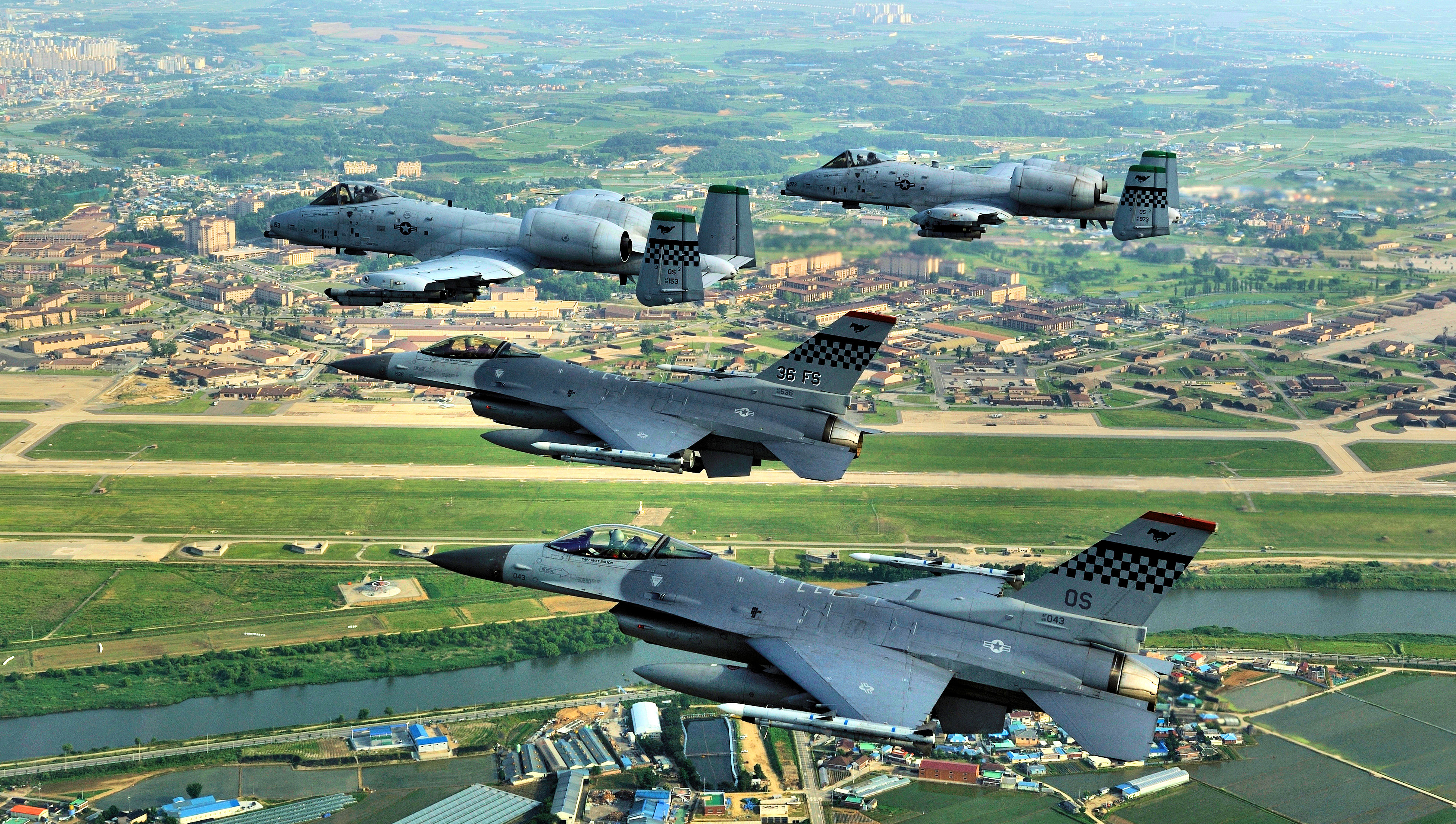 F-16 Falcons and A-10 Thunderbolt IIs fly over the Republic of Korea. Airmen from Osan joined Airmen from across the world to participate in Red Flag Alaska 09-03, scheduled for July 23 - Aug. 7. The exercise is considered by many as the most intense training opportunity available to combat flying units. (U.S. Air Force photo/Lt. Col. Judd Fancher)